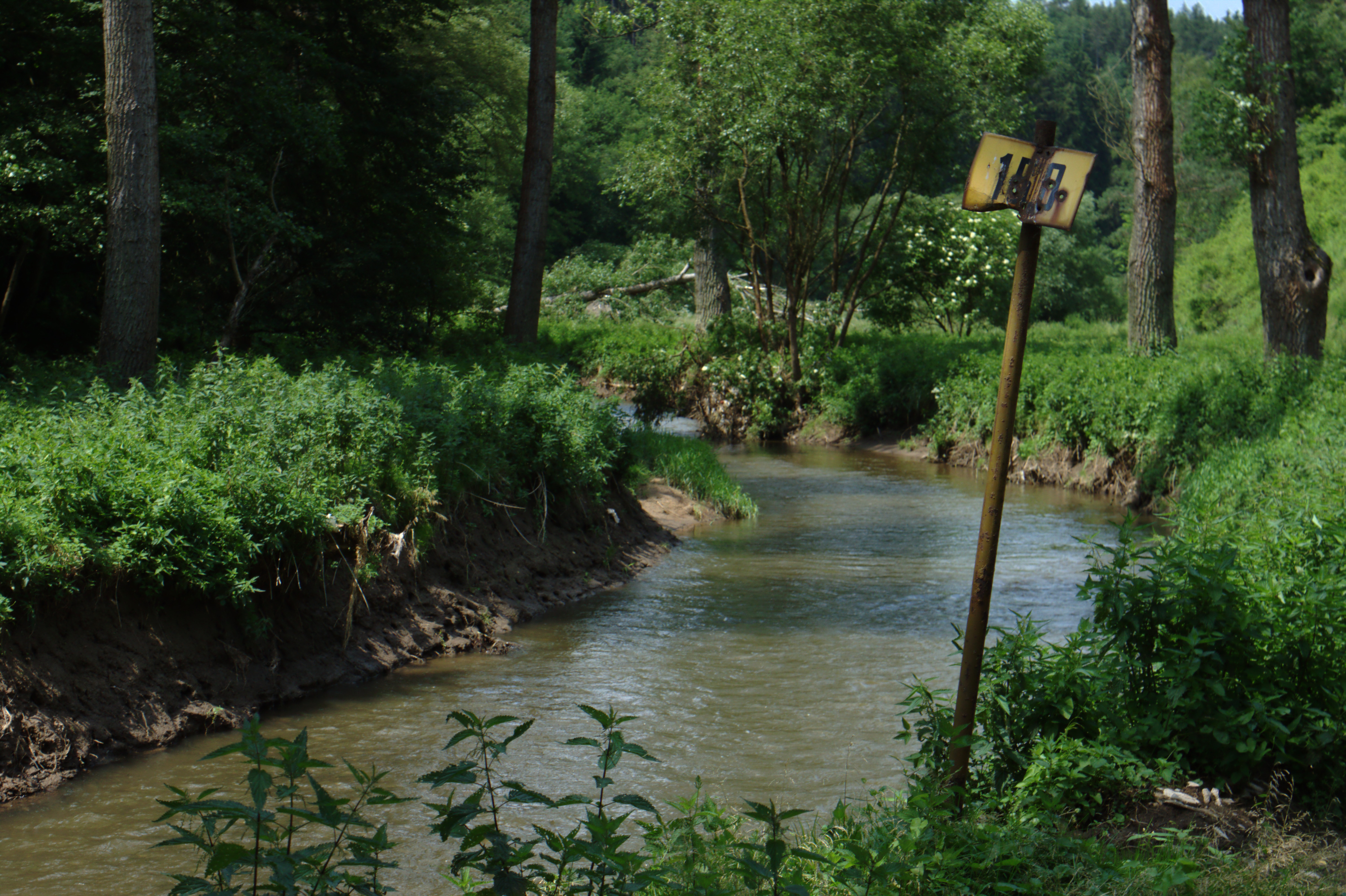 Rakovnický potok Creek near Dolní Chlum, Rakovník District, CZ